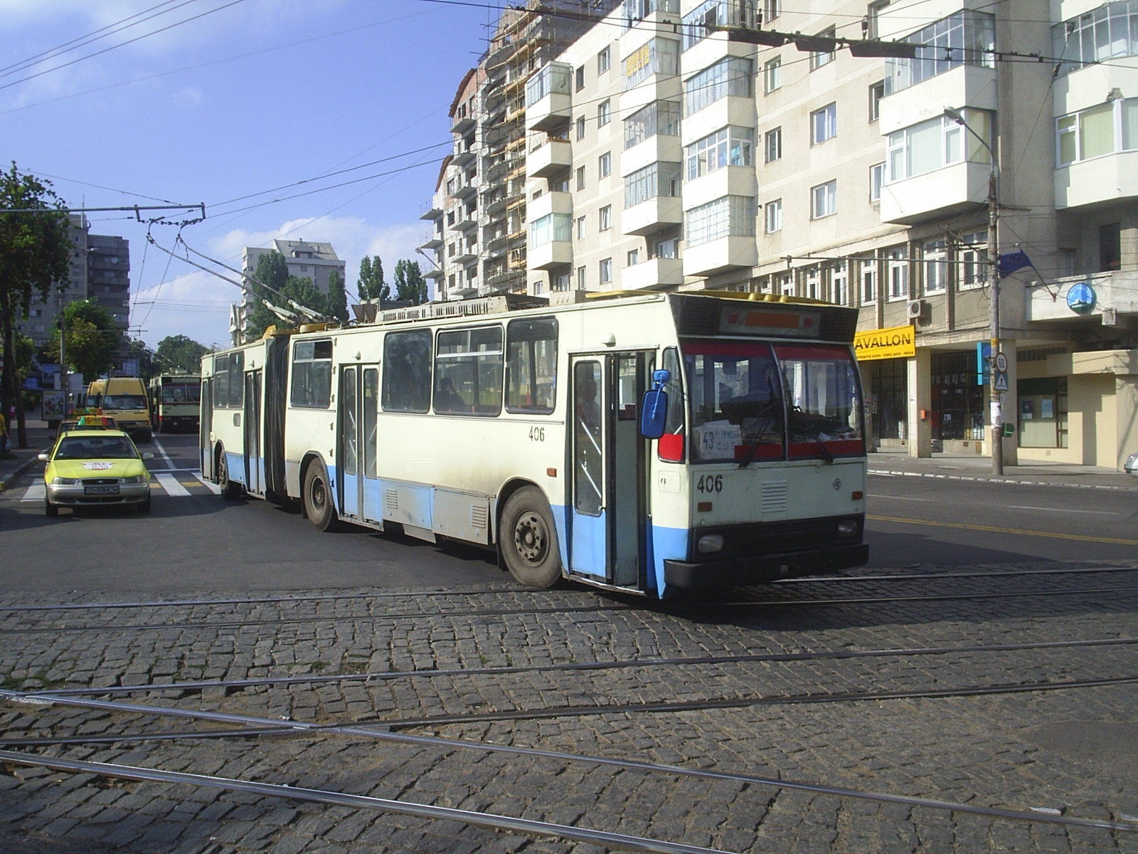 Iași articulated trolleybus 406, a 1994 DAC/Rocar 217E, southbound on Strada Sărărie, turning onto Strada Cuza Vodă/Strada Elena Doamna, on route 43.